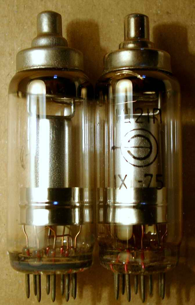 Lamp tube 1C21P (high-voltage diode), USSR (2 items)